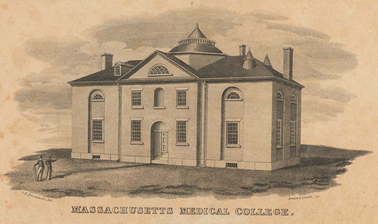 Massachusetts Medical College, Mason St., Boston. Annin & Smith, engraver (printmaker) Penniman, John Ritto (ca.1782-1841), United States, artist Guild, Jacob, architect